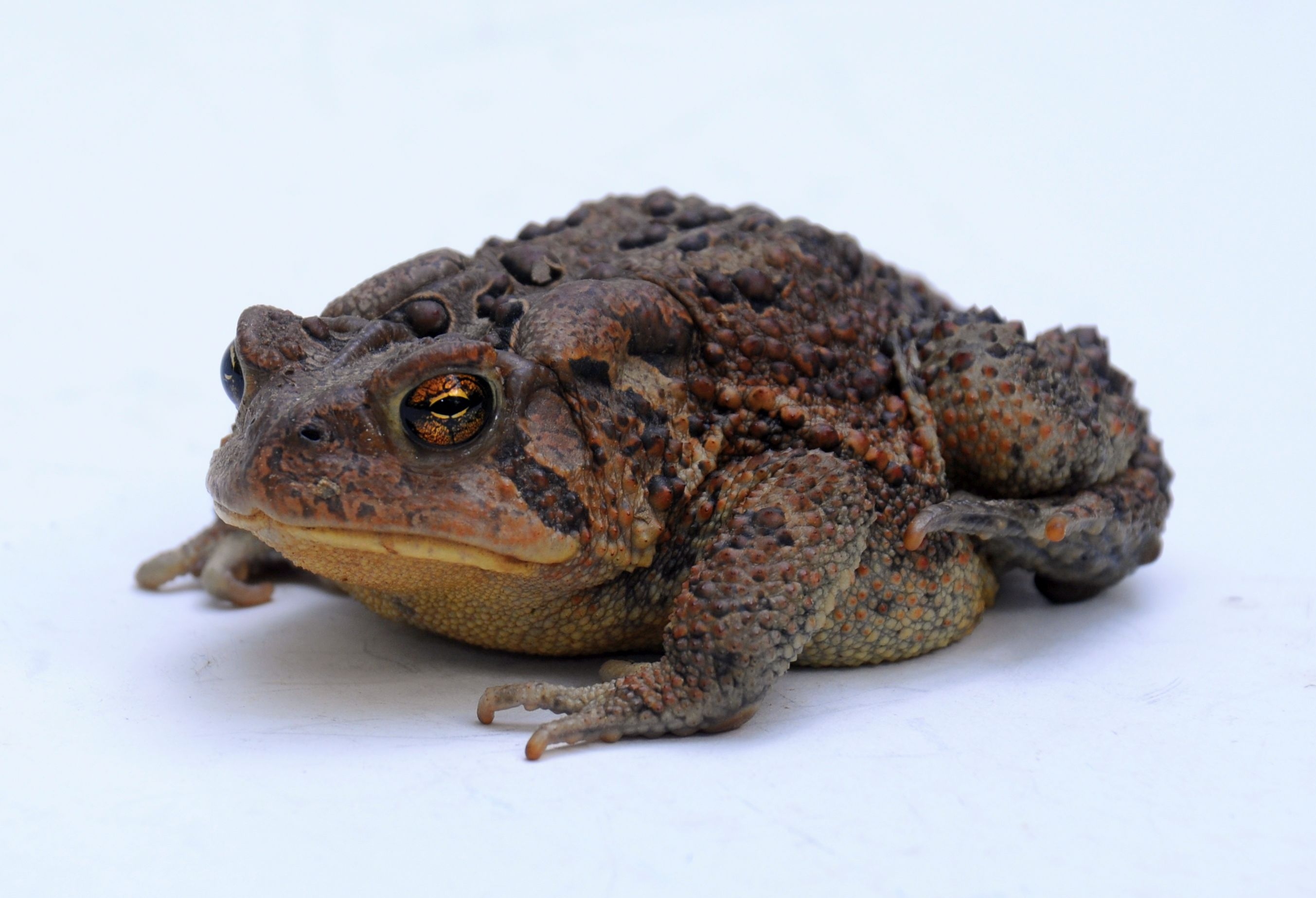 American toad (Bufo americanus) found in Fairfax, Virginia